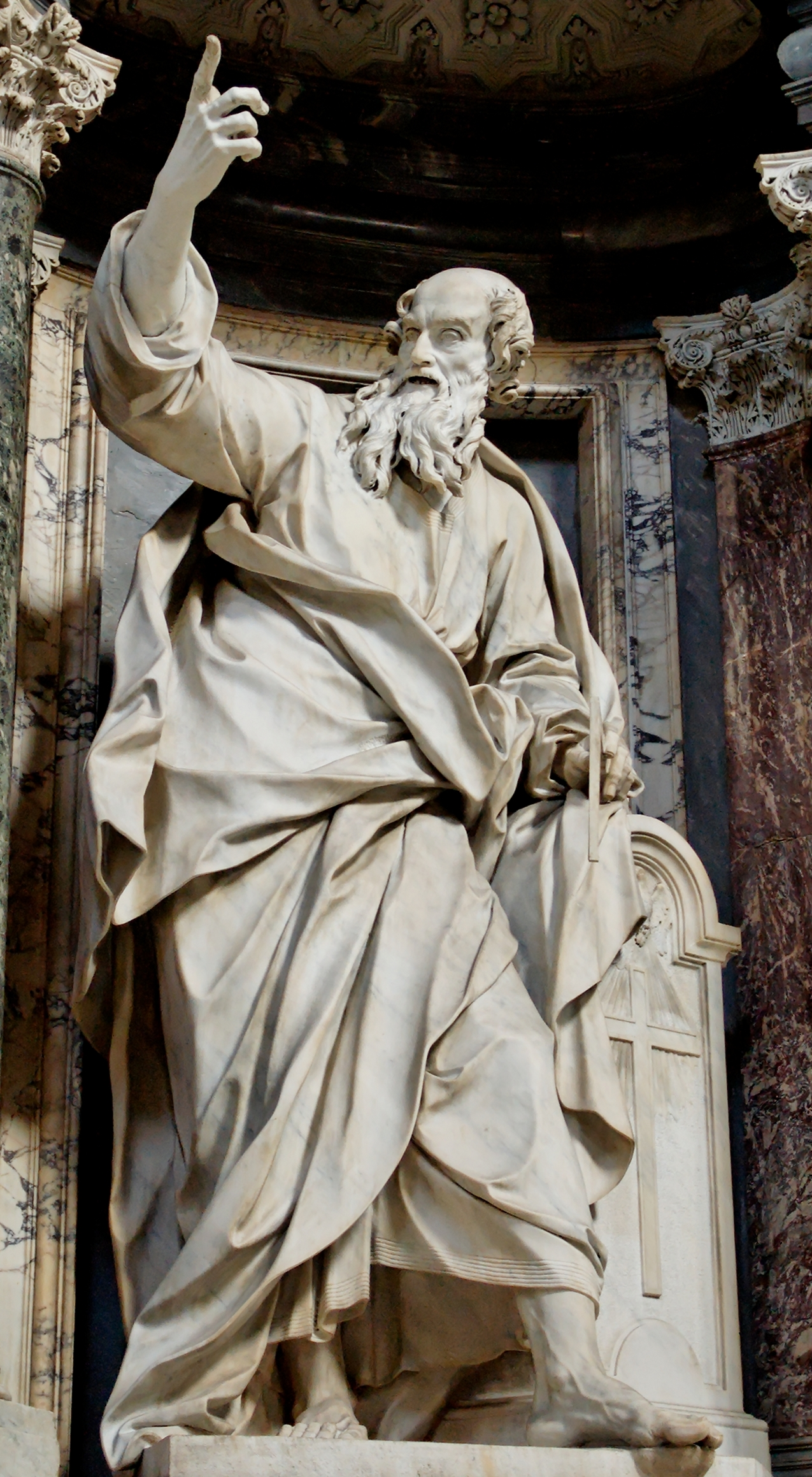 St. Thomas by Pierre Le Gros the Younger. Nave of the Basilica of St. John Lateran (Rome).